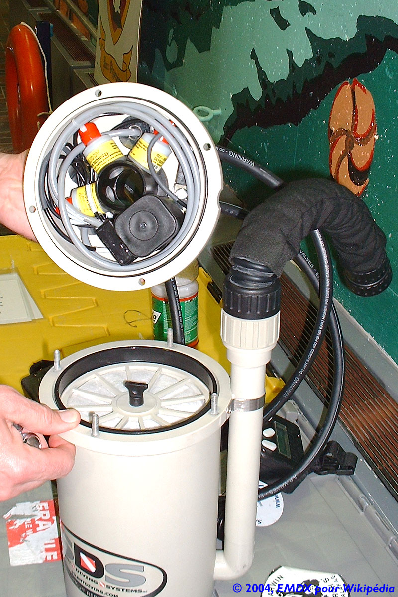 “Inspiration” rebreather CO2 filtering cartridge showing the three O2 sensors (section at top).